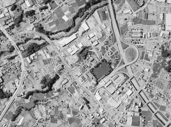 Lake Senroku, Saku Interchange.